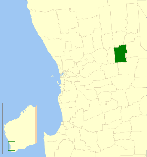 Description=Location of the Local Government Area in Western Australia